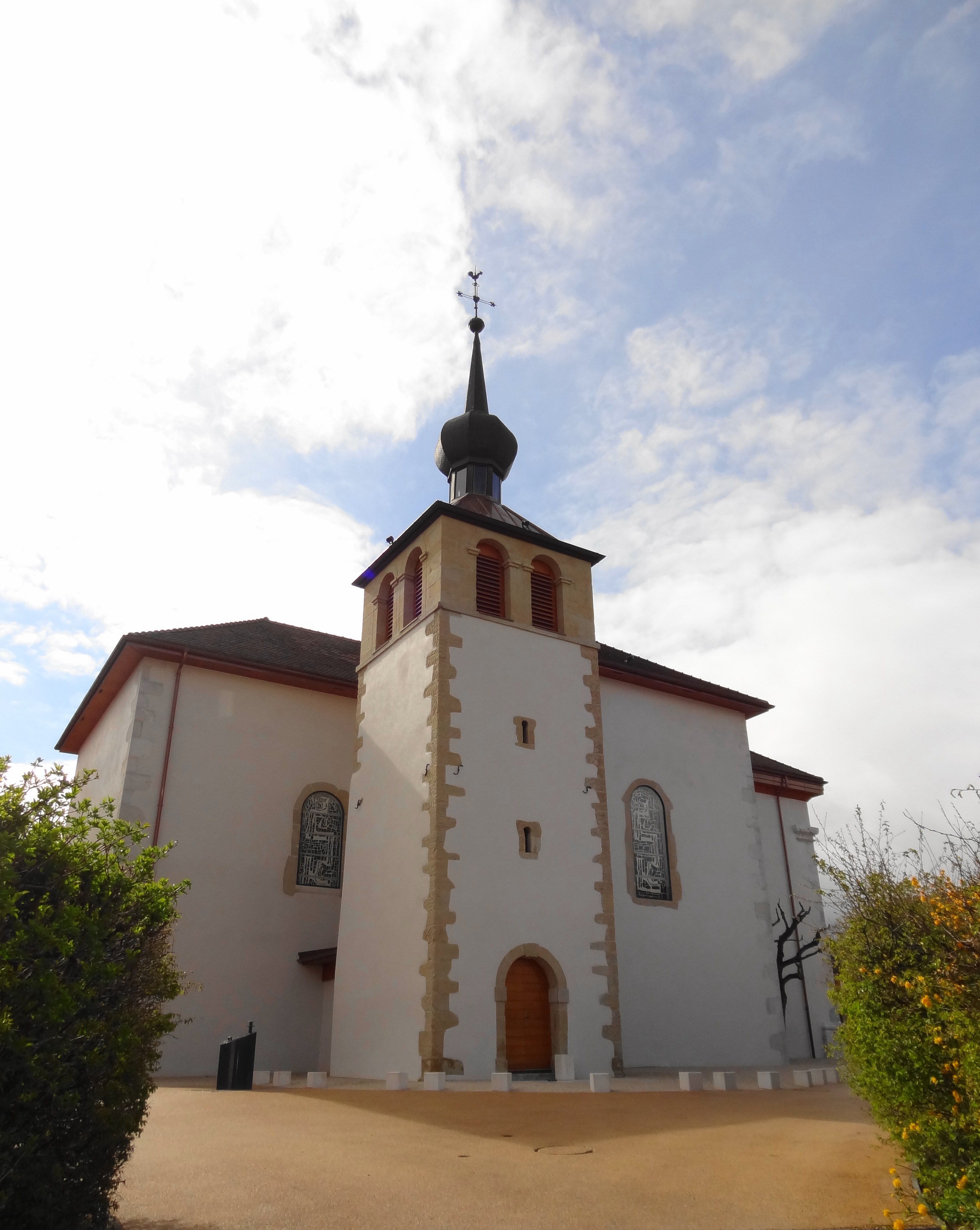 Feigères church (576m), Haute-Savoie county